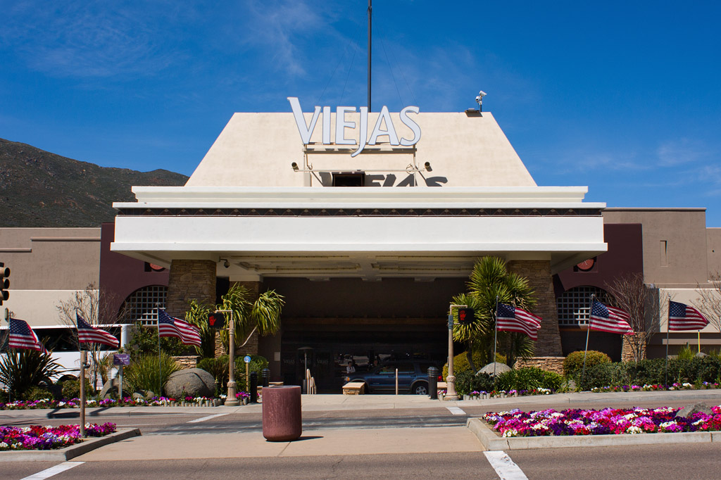 Viejas Casino in Alpine California owned and operated by the Viejas Band of Kumeyaay Indians